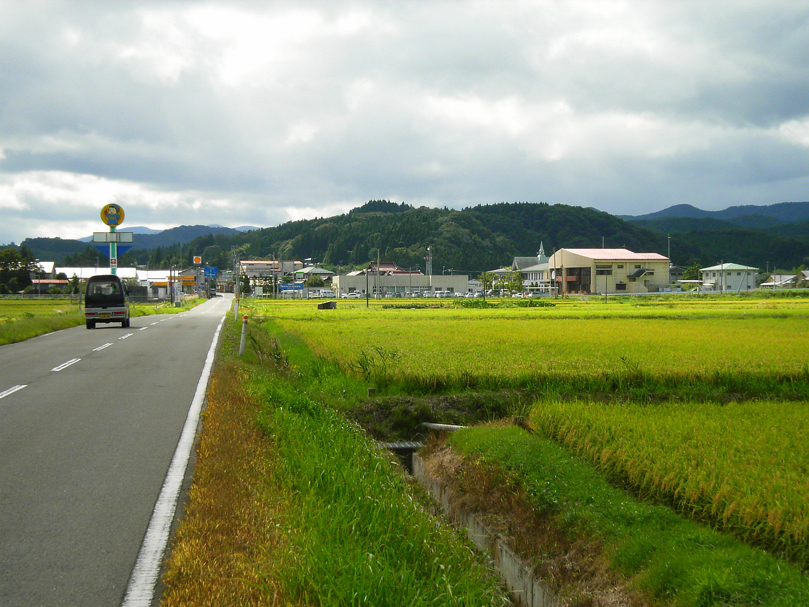 Uguisuzawa town view. Kurihara, Miyagi prefecture, Japan.